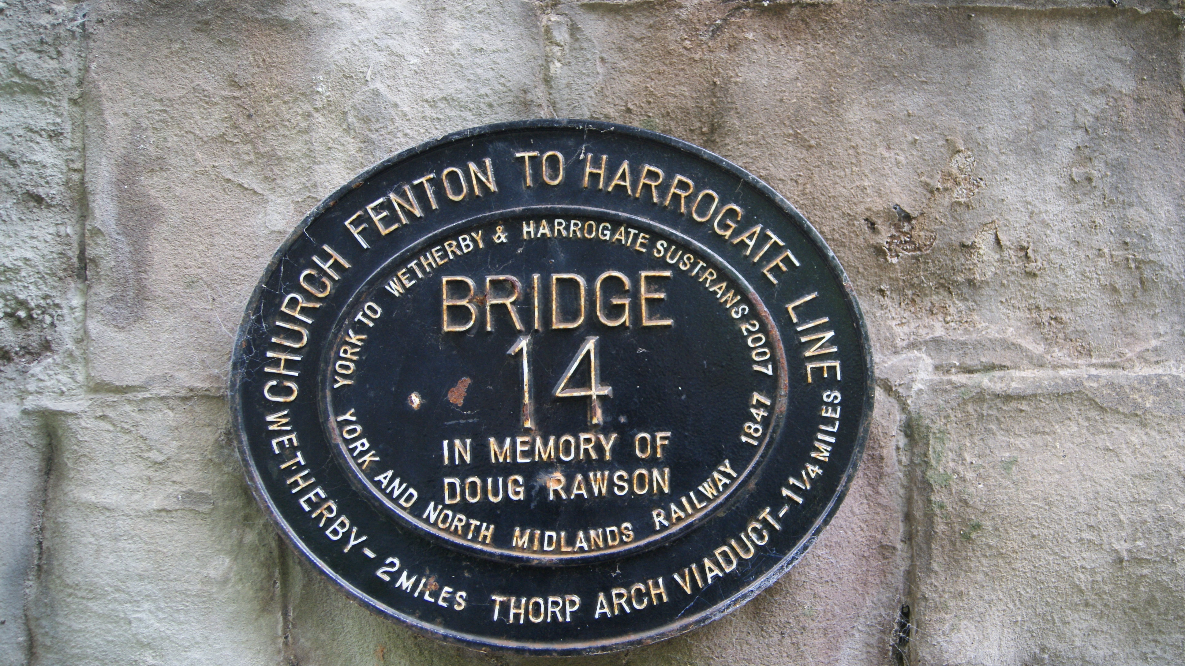 Bridge 14, Harrogate to Church Fenton Line now the Harland Way between Wetherby and Thorp Arch, West Yorkshire. Taken on the afternoon of Sunday the 24th of April 2020.